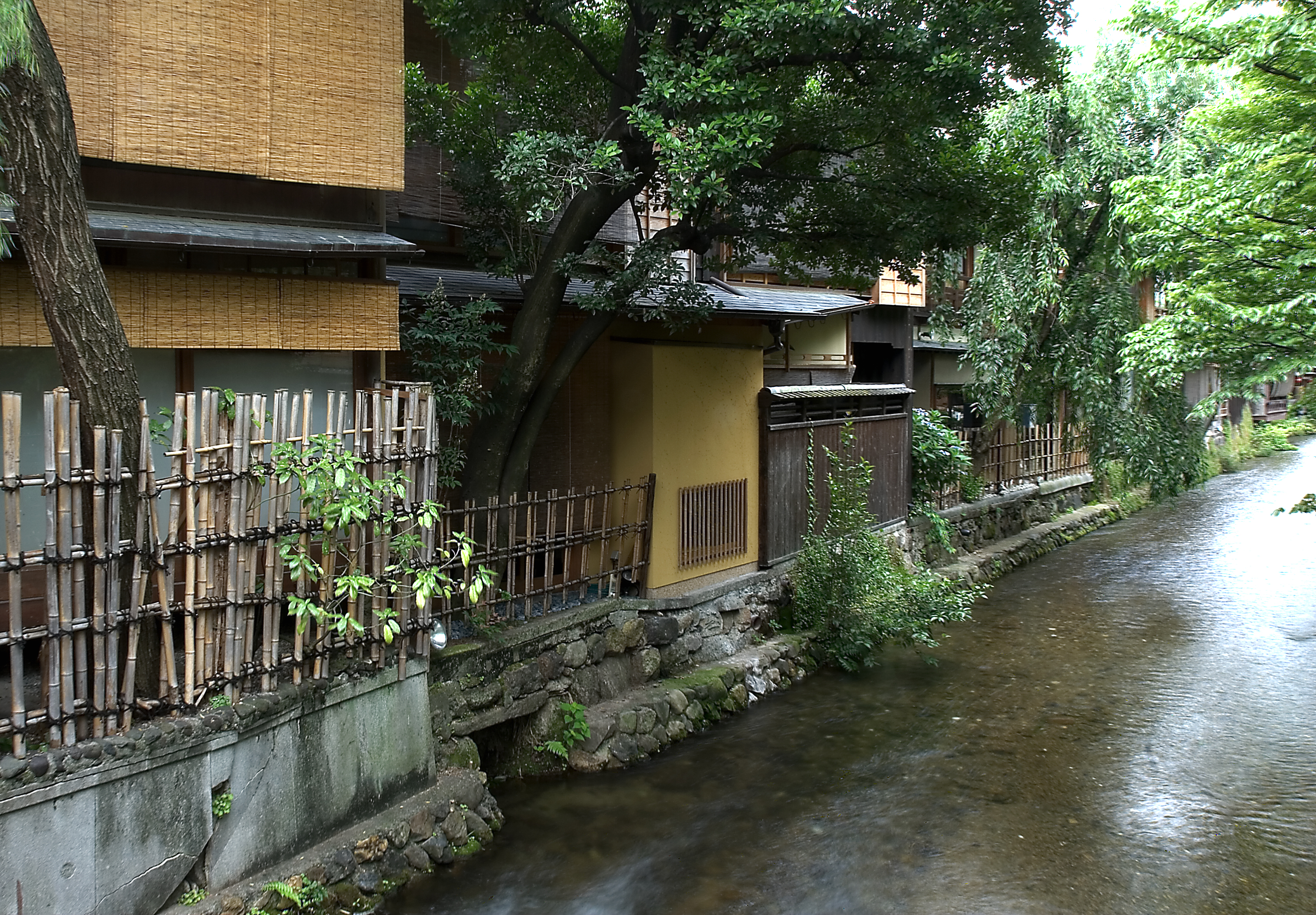 Shirakara Canal, Gion, Kyoto, showing rear of ochaya (teahouses)